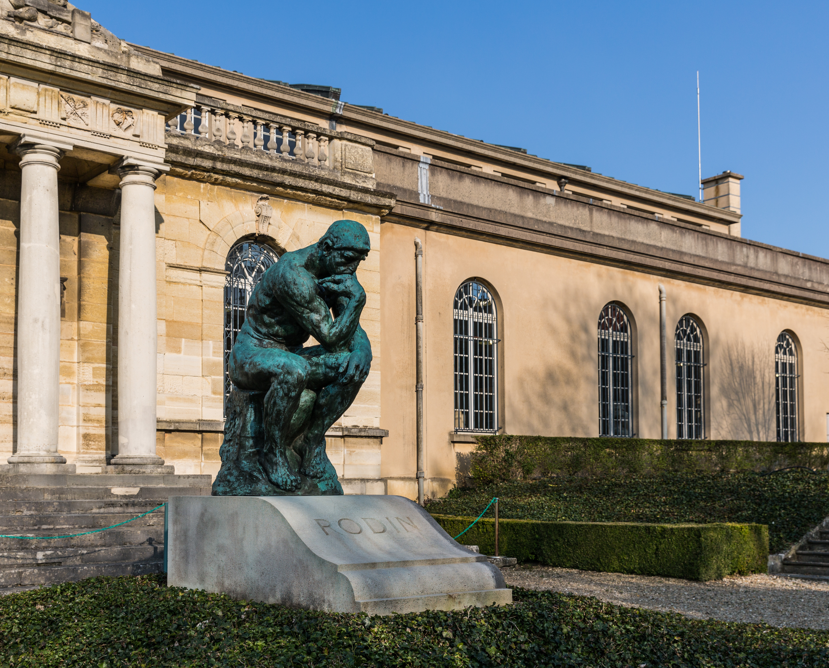 Tomb of Rodin and his atelier in Meudon